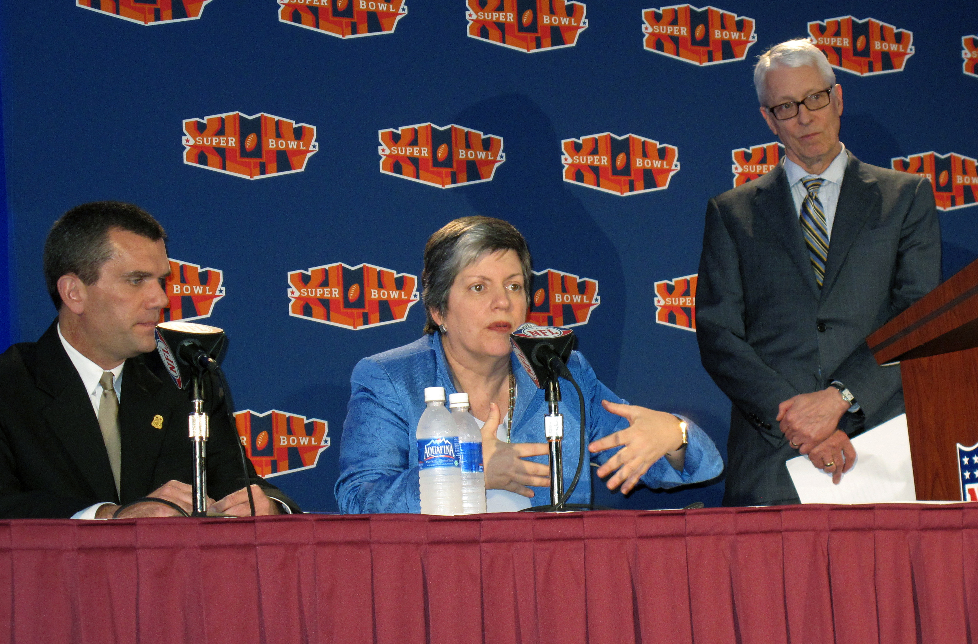 Secretary of Homeland Secretary Janet Napolitano, FBI Special Agent in Charge John V. Gilies and Vice President NFL Security Operations Milt Aldridge answer questions on Super Bowl XLIV security which CBP will be assisting with.